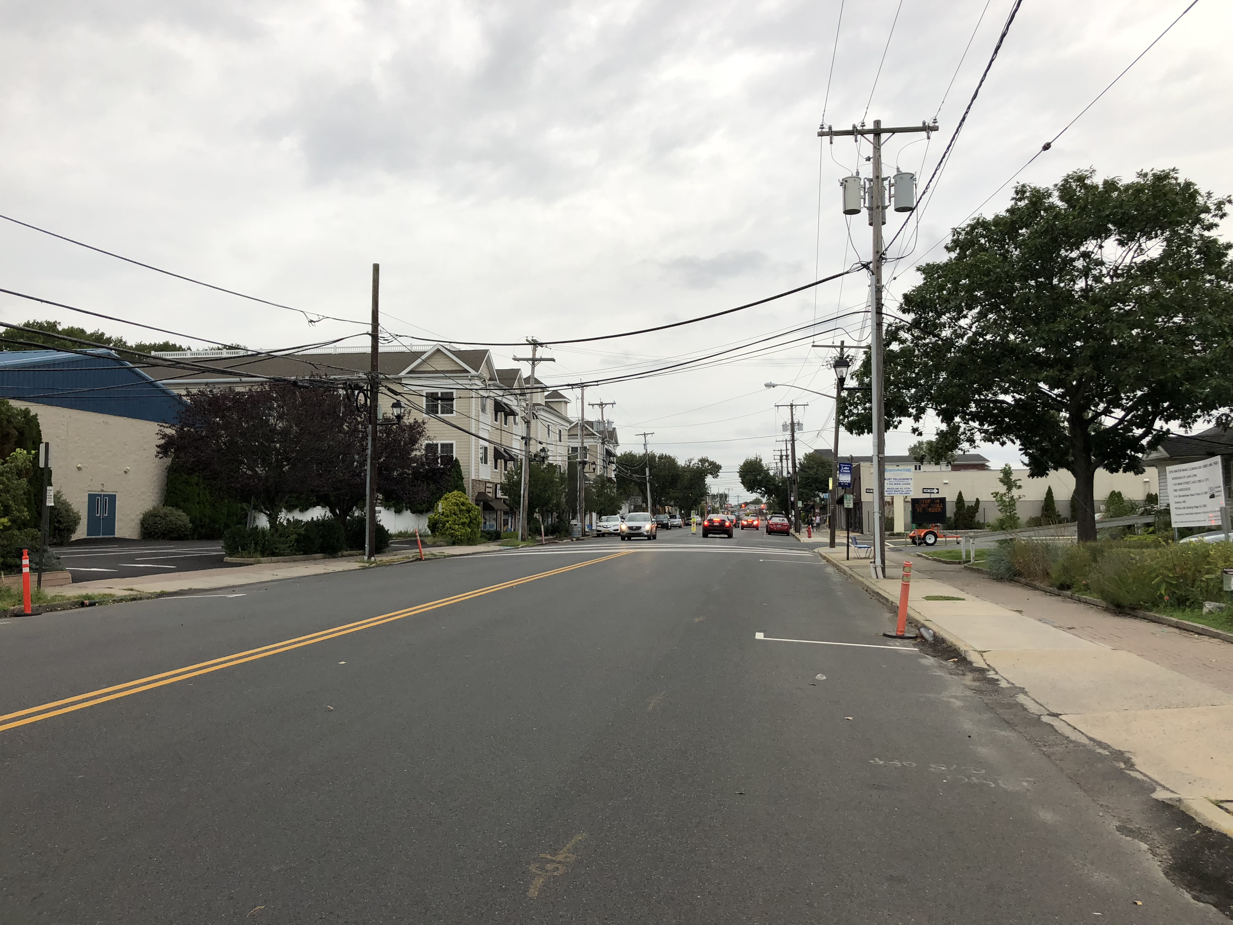 View north along Monmouth County Route 30 (Main Street) at 18th Avenue in Lake Como, Monmouth County, New Jersey